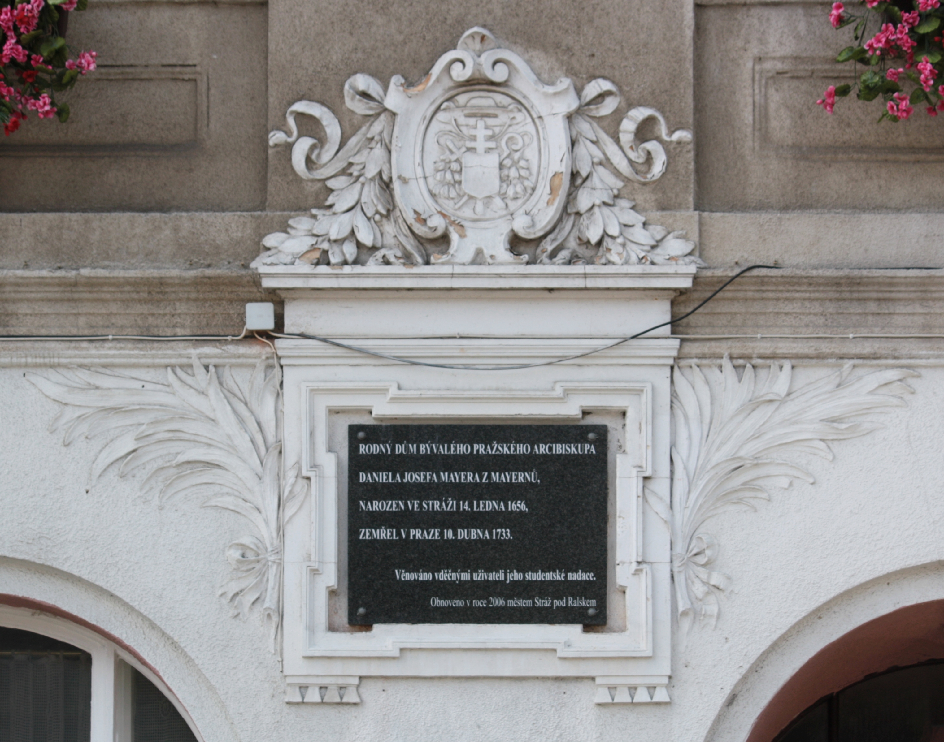 Stráž pod Ralskem, memorial plaque on birth house (No 14) of Daniel Joseph Mayer von Mayern, auxilliary bishop (1711-32) and archbishop (1732-33) of Prague. The Czech text translates as: Birth house of former archbishop of Prague Daniel Joseph Mayer von Mayern, born in Stráž on January 14, 1656, died in Prague on April 10, 1733. Donated by grateful users of his scholarship. Restored in 2006 by town of Stráž pod Ralskem [the original plaque dated from 1904]